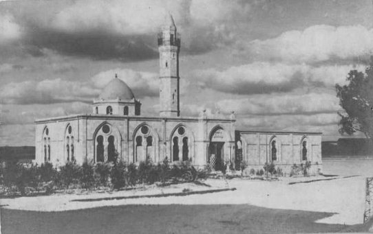 The Mosque at Beersheba, in Ottoman Palestine (1917).